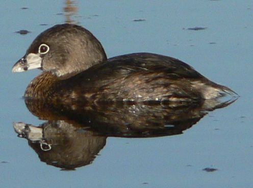 Pied-billed Grebe